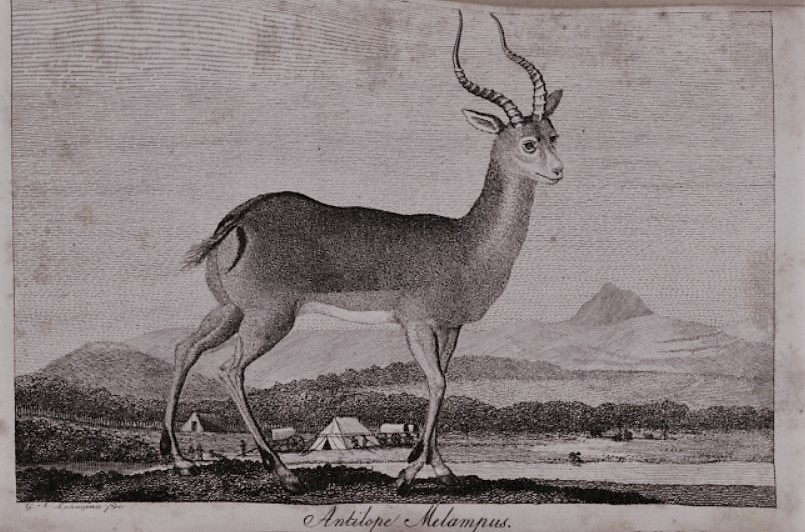 Antilope melampus = Aepyceros melampus illustrated by Martin Hinrich Carl Lichtenstein